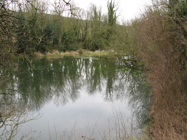 The River Dour near its source, Alkham Valley Although near its source the river widens to this shallow 'lake'.